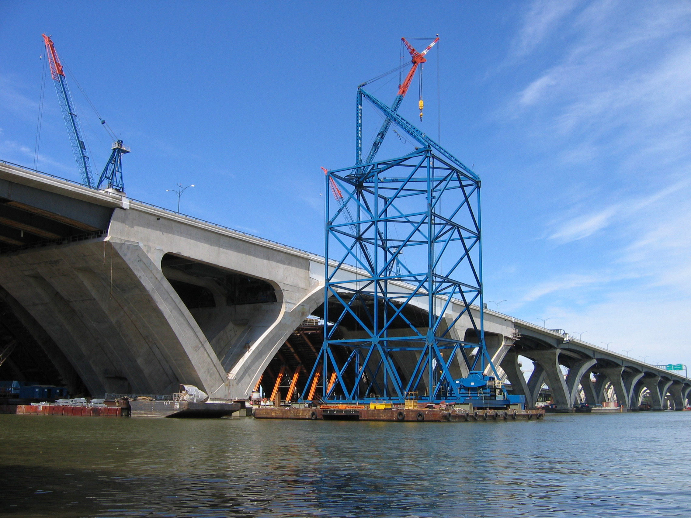 New span of the Woodrow Wilson Bridge, opened to traffic on June 10, 2006.